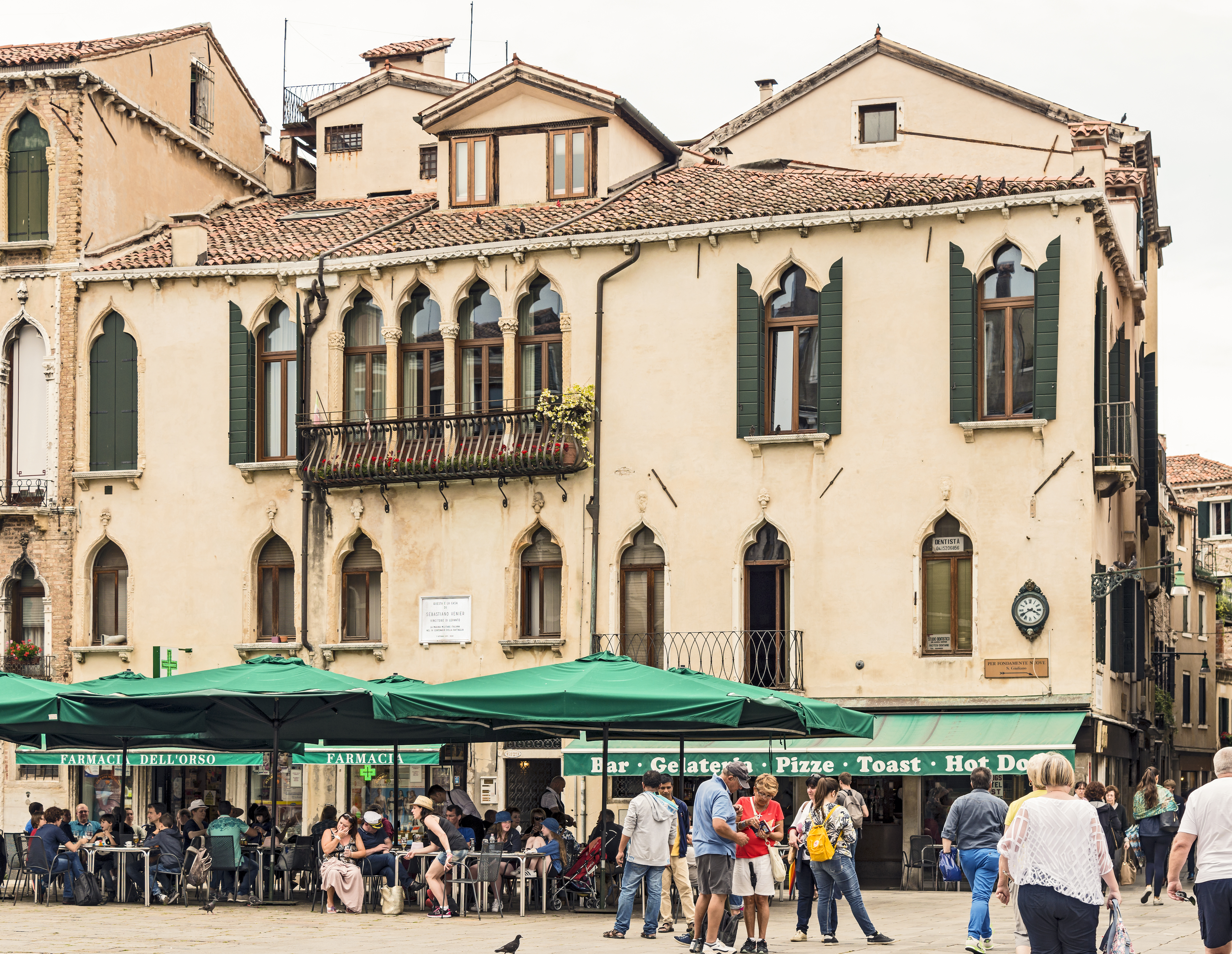 the Casa Venier was builtin 16th century in Campo Santa Maria Formosa. Venice. Sebastiano Venier home, naval commander at Lepanto and then Doge of Venice.